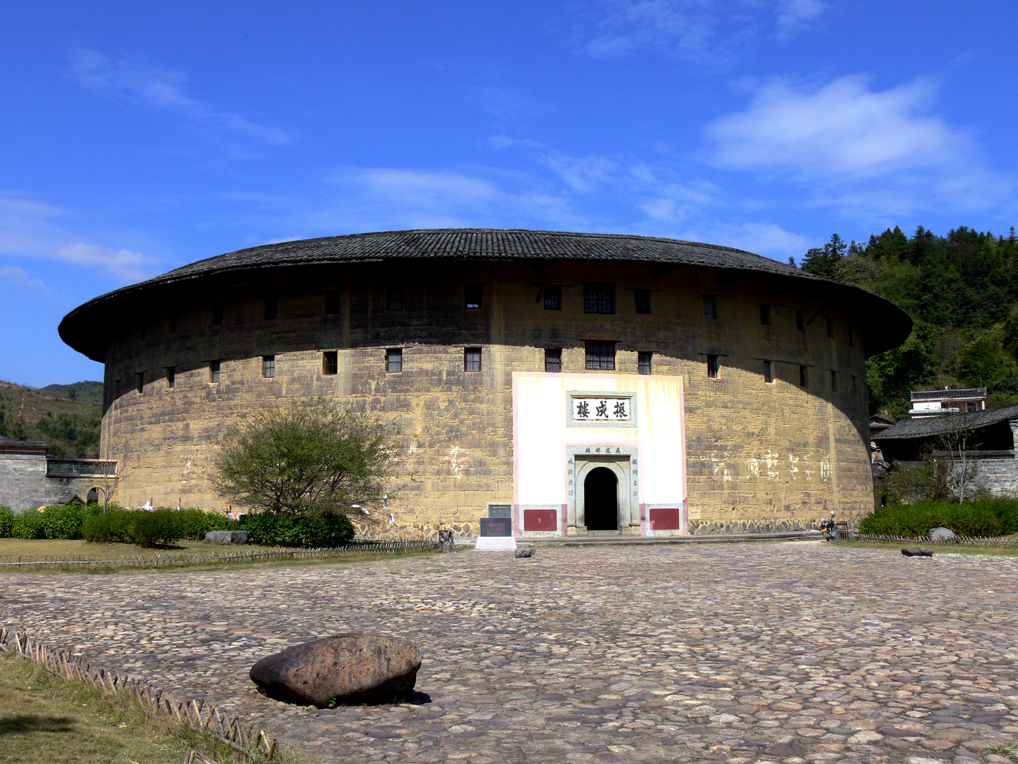 Zhenchenglou, a rotunda tulou in Yongding county, Fujian.